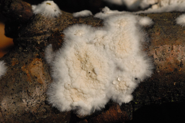 Coniophora puteana from Commanster, Belgium. If you think this is a different taxon, please contact James Lindsey.